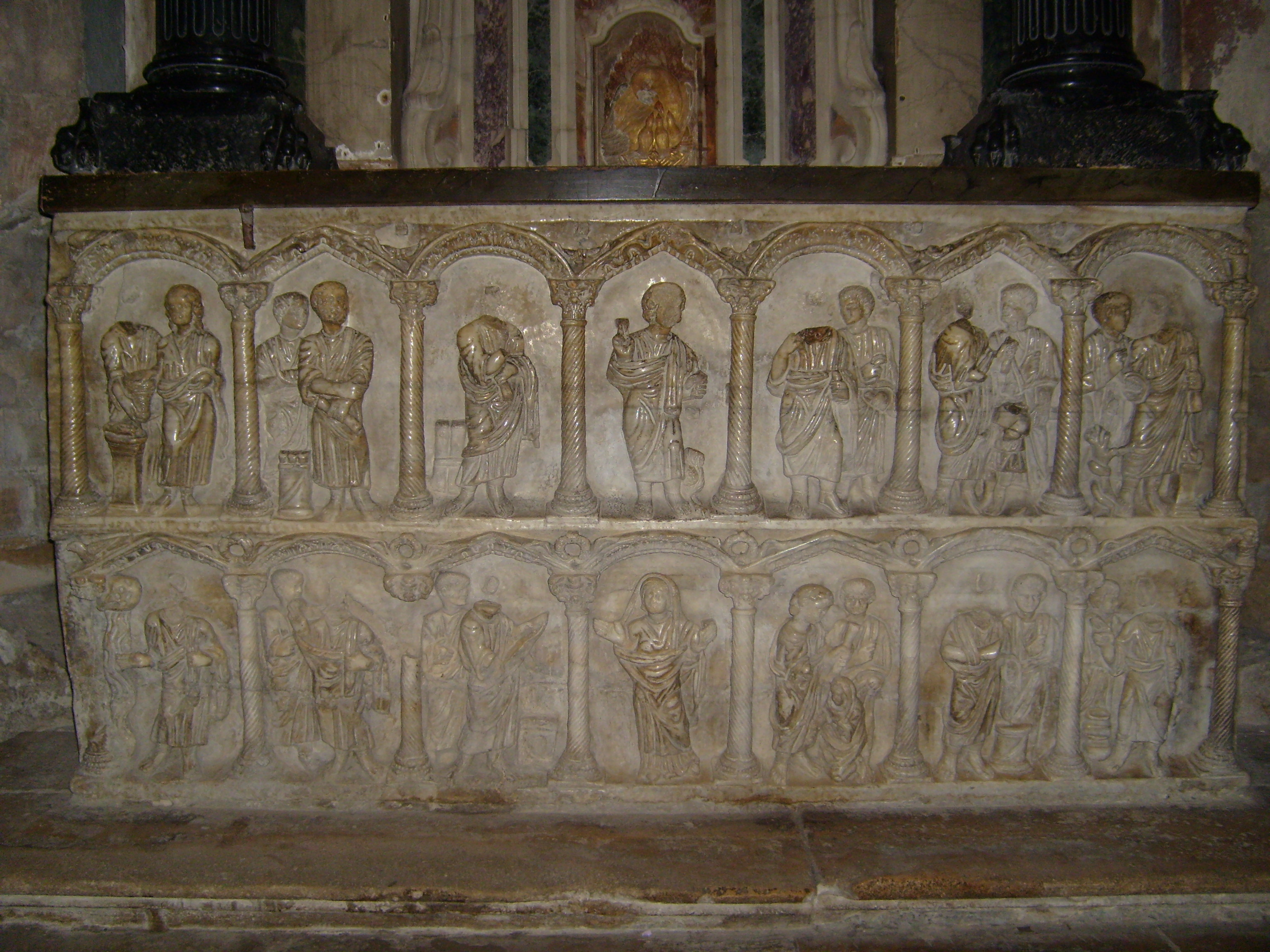 Sarcophagus reputed to be that of St. Honorat, in St. Trophime Church, Arles, France